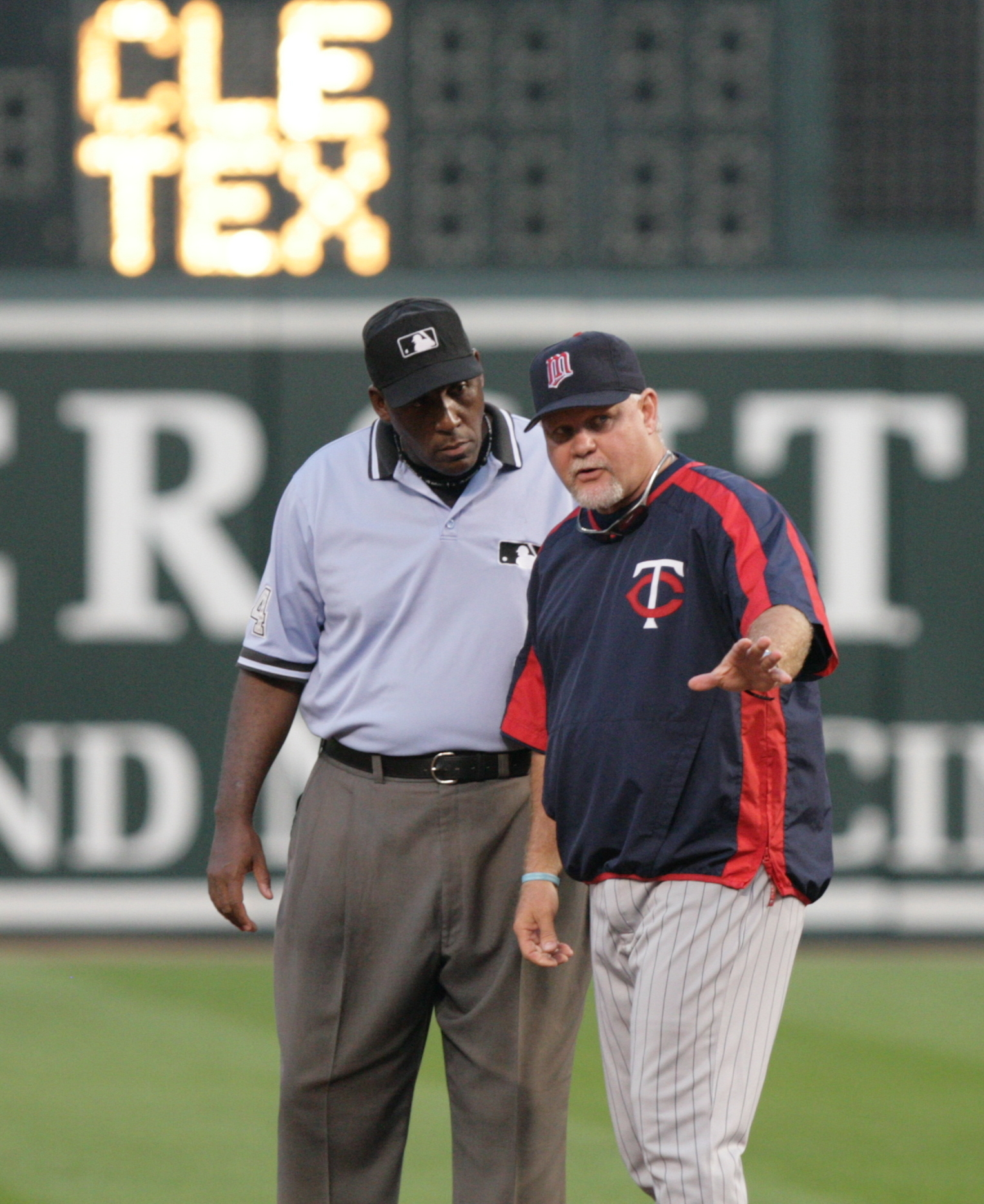 Minnesota Twins manager Ron Gardenhire talks with umpire Chuck Meriwether during a game on September 23, 2006.